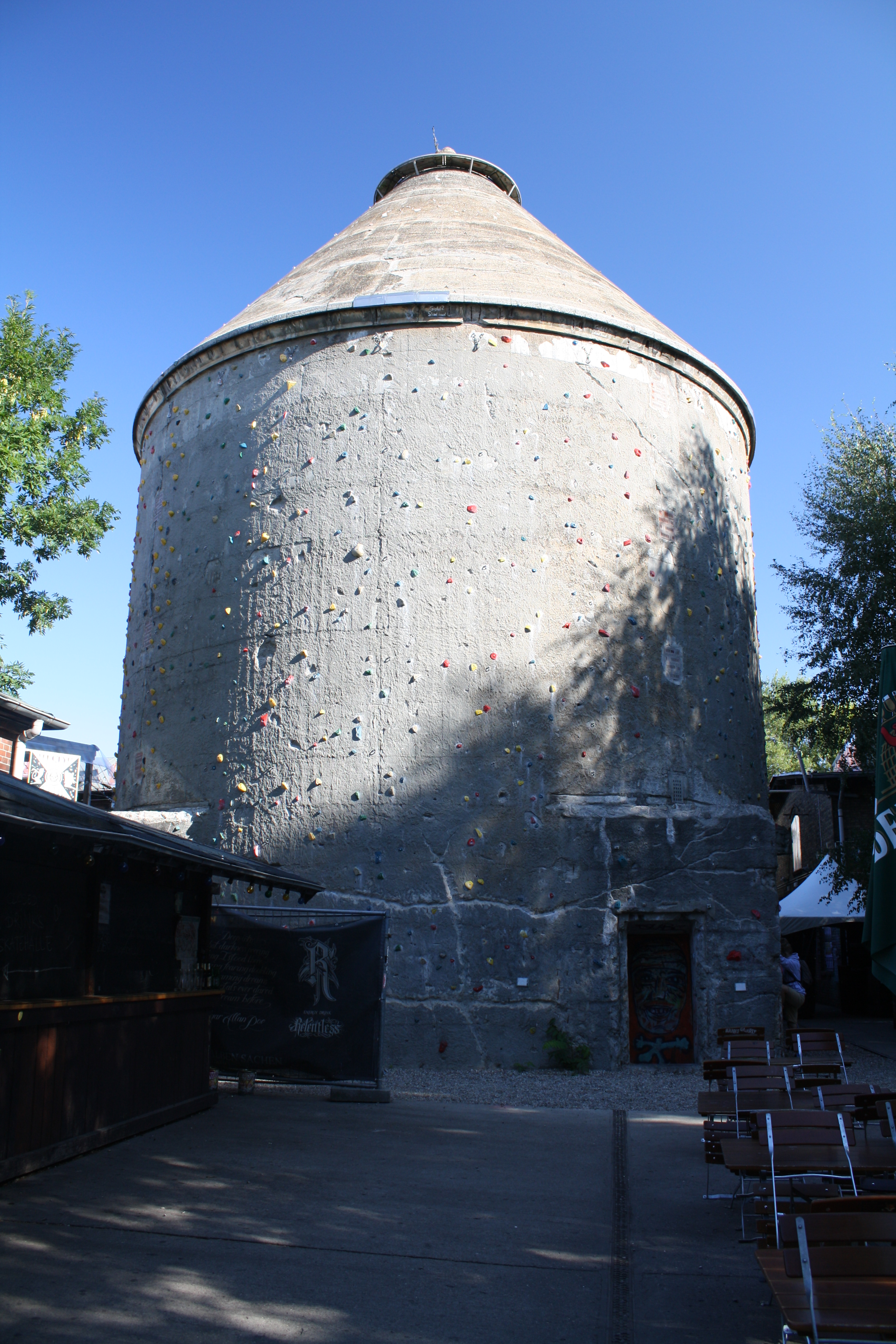 Hochbunker at Revaler Straße, Berlin. Today climbing tower Der Kegel (The Cone).